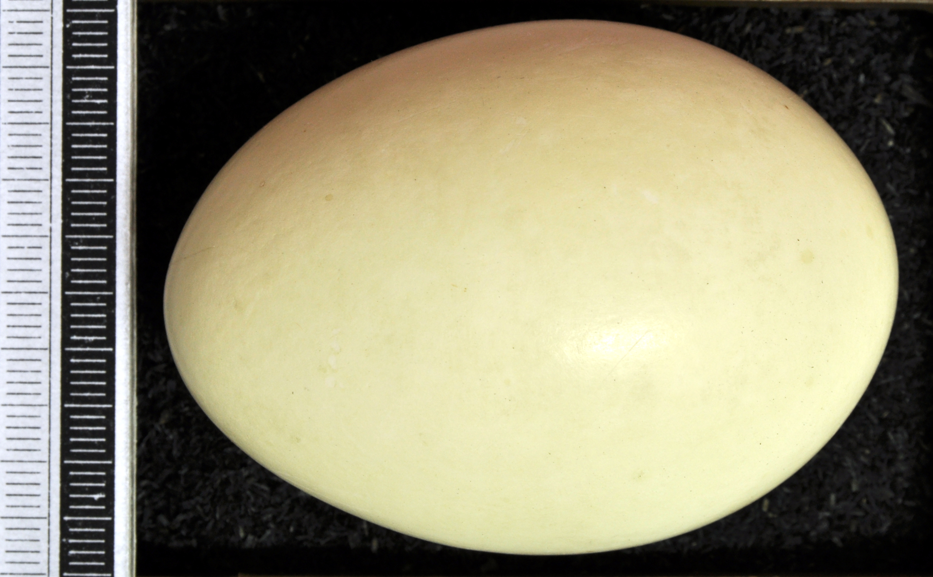 Muscovy duck Cairina moschata , egg, Coll. Museum Wiesbaden